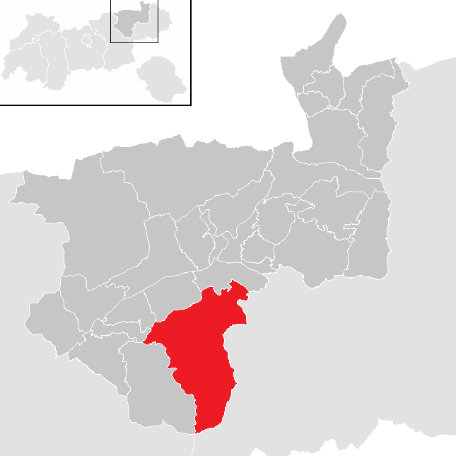 District Kufstein